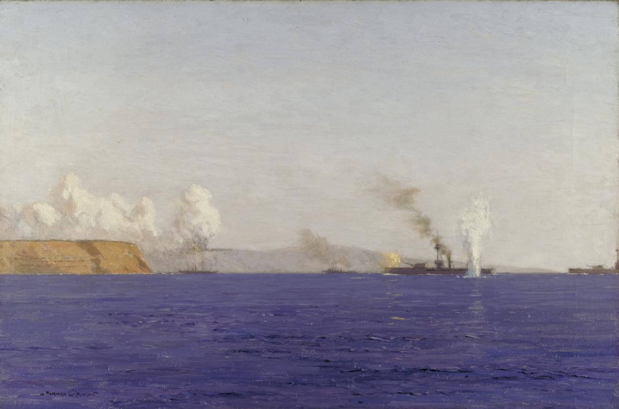 A Monitor with 14-inch Guns Shelling Yeni Sher Village and the Asiatic Batteries image: A British Monitor ship shelling a village off the coast of the Dardanelles. The ship has her guns pointed towards the cliffs on the left of the composition. A trail of grey smoke steams from her funnel, but also from the guns on deck which have just been fired. There are several other ships at sea in the distance, and a spurt of water from return gunfire just in front of the Monitor.